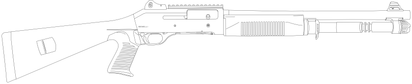 Benelli M4 Super 90